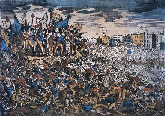 Dreadful Scene at Manchester Meeting of Reformers Augt. 16. 1819: A print depicting the Peterloo Massacre of 16 August 1819, at Manchester, England. Several copies had been published at the time of its creation.[1] This coloured version had been purchased by John Jenkins and exhibited in November 1819.